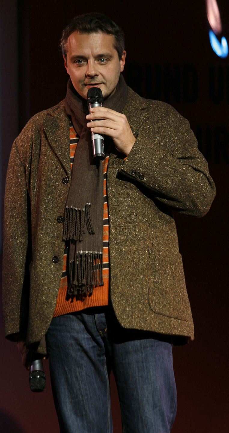 Austrian political cabaret artist and author Thomas Maurer presenting a reading in Vienna.